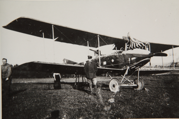 Albatros C.III (single engine side louvre suggests OAW production)